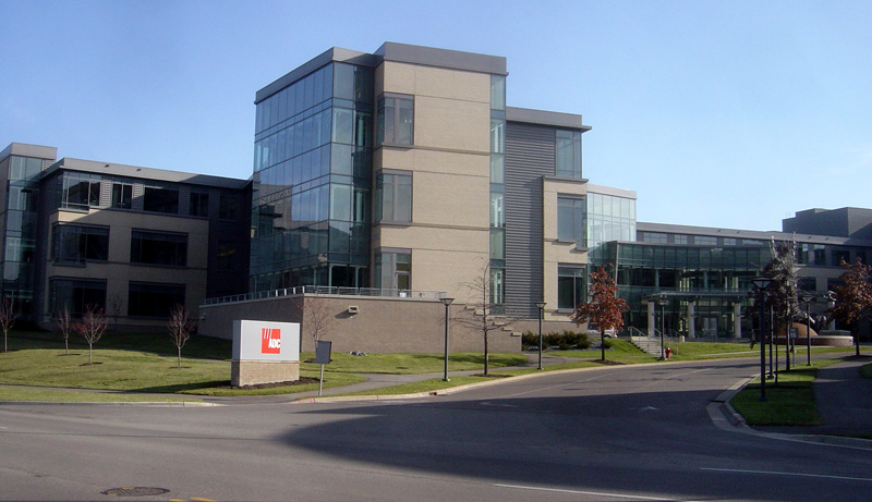 ADC Telecommunications headquarters in Eden Prairie. Photo taken by Bobak Ha'Eri, on November 16, 2006. Please observe license and properly cite in use outside Wikipedia.